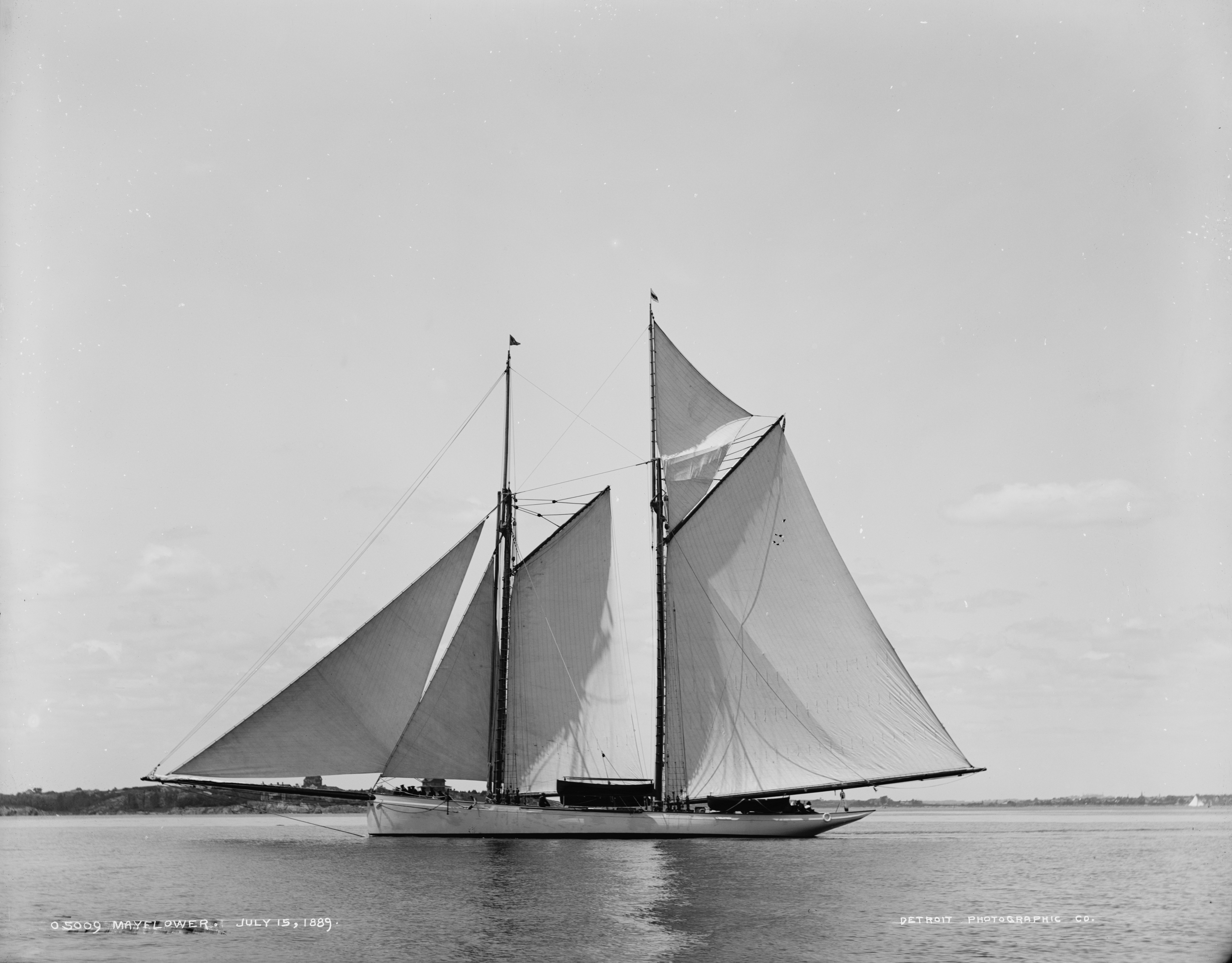 The compromise centreboard sloop Mayflower (Edward Burgess design, 1886) had previously defended the America's Cup with a sloop rig in 1886 before being sold in 1889 to Francis Townsend Underhill, who had her original designer and shipyard re-rig her as a schooner. Pictured in the Eastern Yacht Club's annual regatta, 1889. New York Times - Eastern Yacht Club's annual regatta report